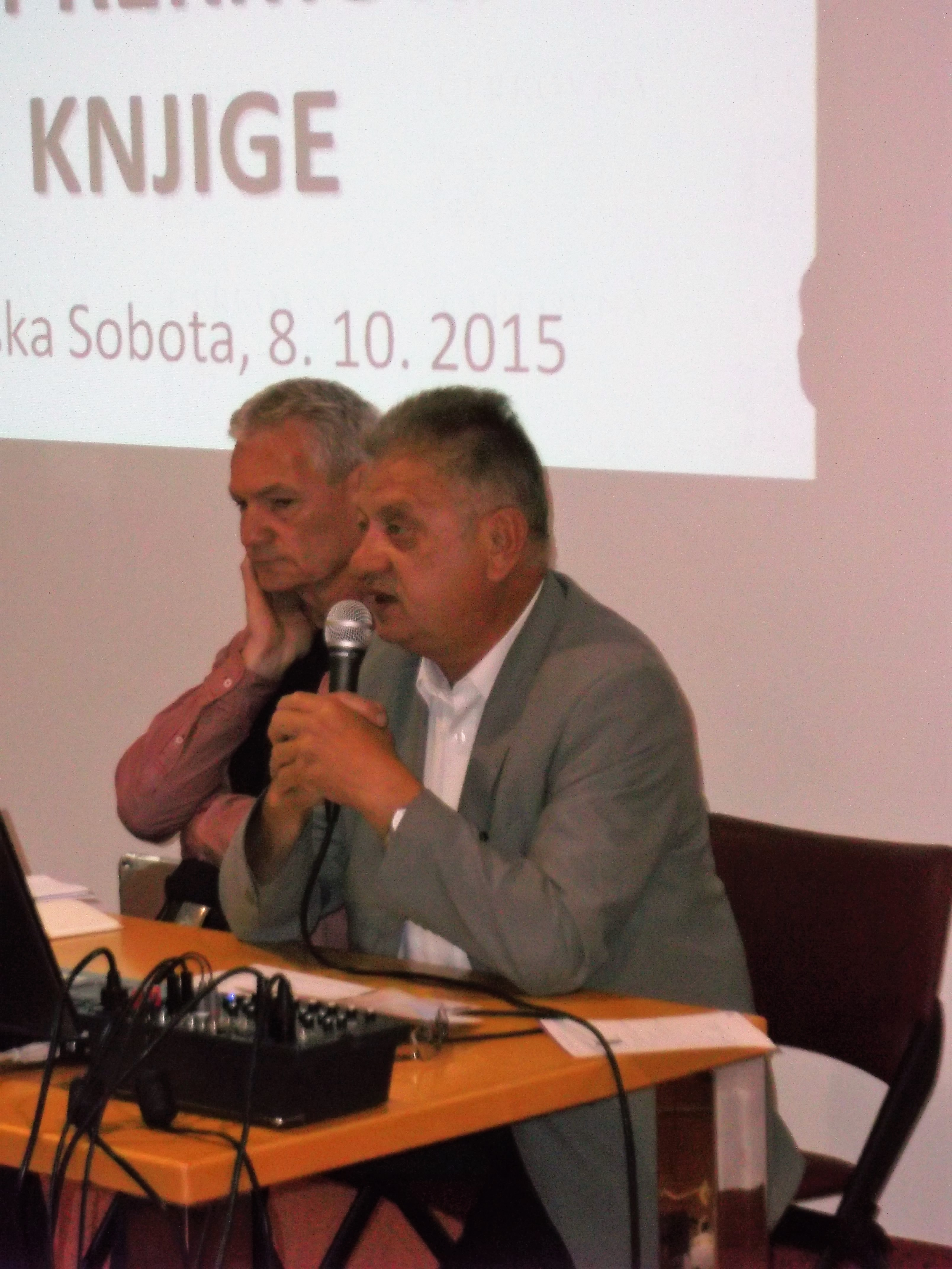 Franc Kuzmič (Feri Küzmič), former curator, historian, priest of the Pentecostal Church in Prekmurje in the Murska Sobota Library, on the symposium of the first prekmurian (prekmurščina) book Ferenc Temlin's Mali katechismus (1715)